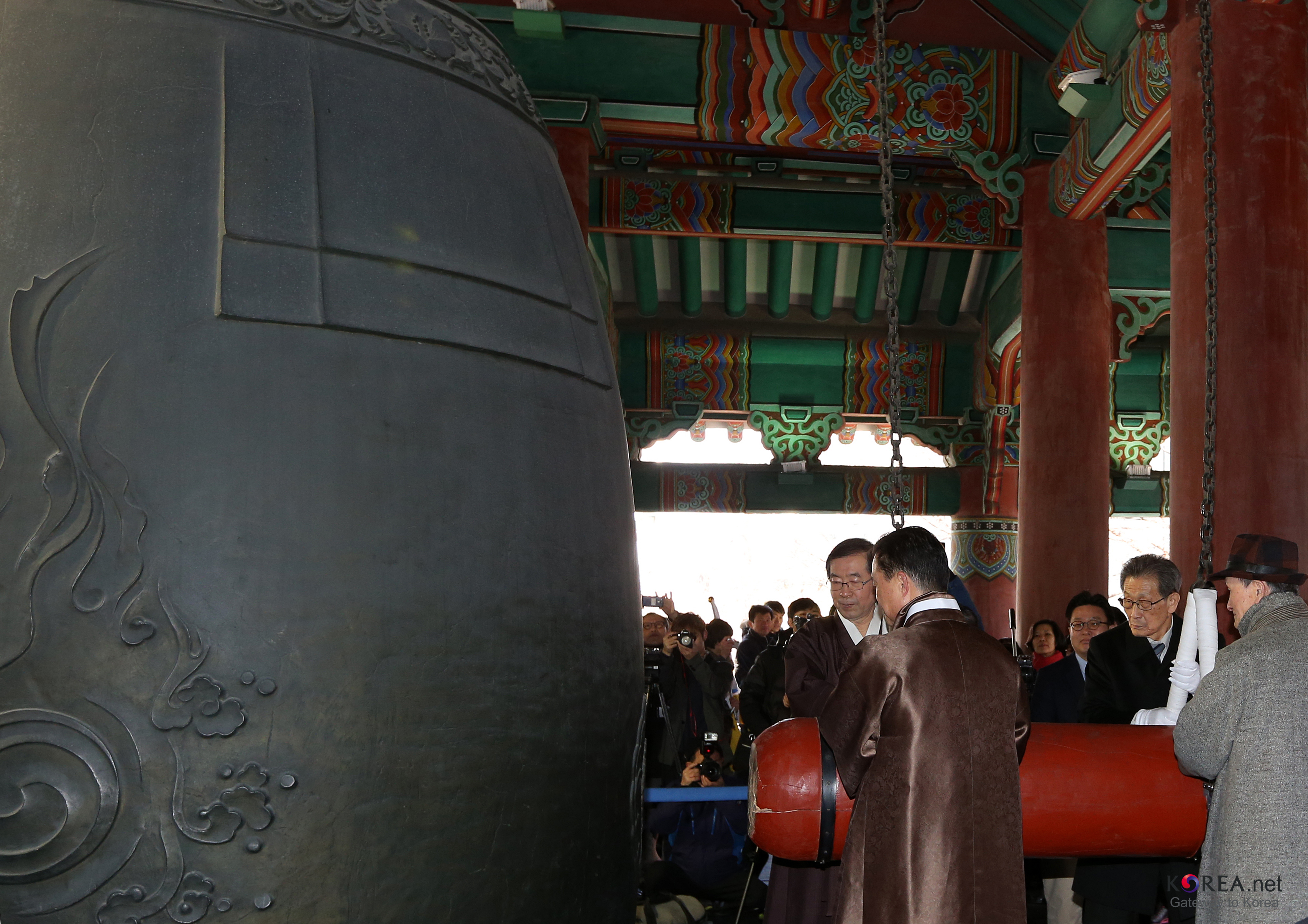 The 94th March First Independence Movement Day Boshingak, Jongnon, Seoul 2013.03.01. Ministry of Culture, Sports and Tourism Korean Culture and Information Service Jeon Han 제94주년 3.1절 기념 보신각 타종행사 보신각, 종로, 서울 문화체육관광부 해외문화홍보원 코리아넷 전한